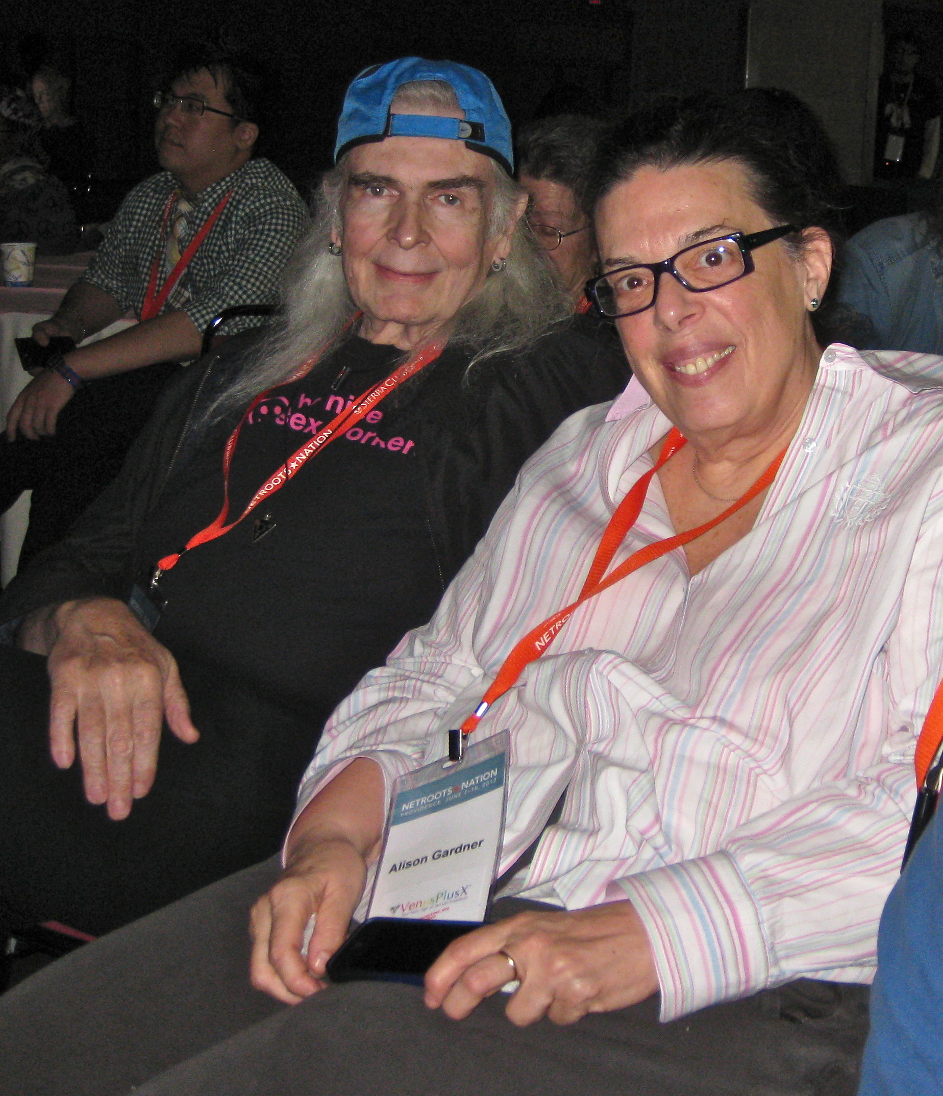 Photo of Dan Massey and Alison Gardner from Netroots Nation 2012